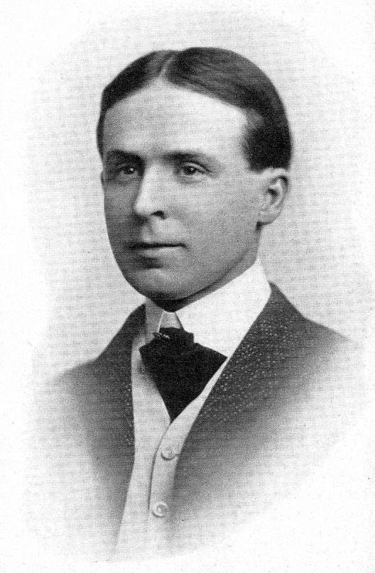 A photo of cartoonist Charles L. Bartholomew